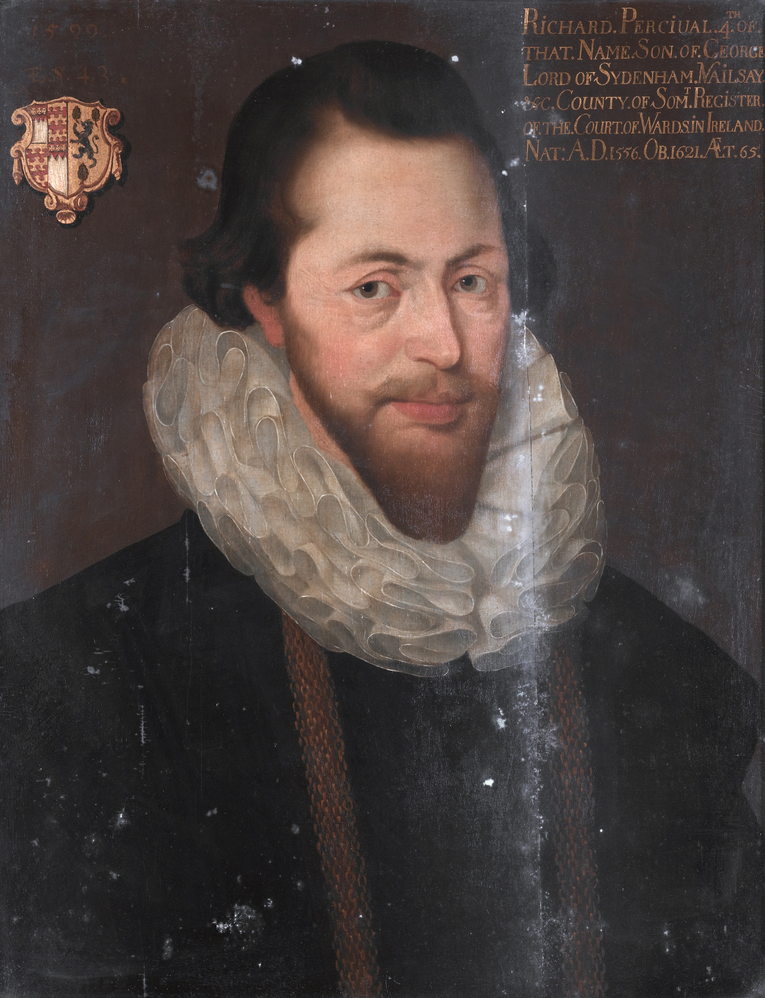 Richard Perceval (1556-1621), of Twickenham, Somerset, son of George Sydenham, lord of the Wikipedia:Manor of Sydenham, near Bridgwater in Somerset. Pair with File:Alice, daughter of John Sherman of Ottery, St Mary, Devon, mannner of Marcus Gheeraerts the Younger.jpg Sold at Sotheby's, London, Lot 710, Old Master & British Paintings, 30 April 2014 oil on panel 57.5 x 45 cm 1599